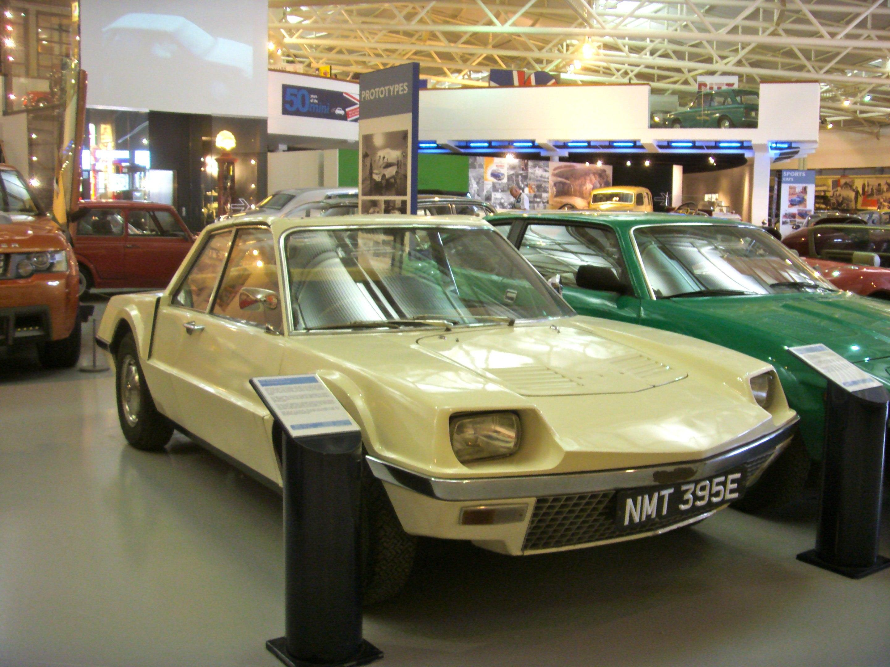 1967 Rover P6BS Prototype